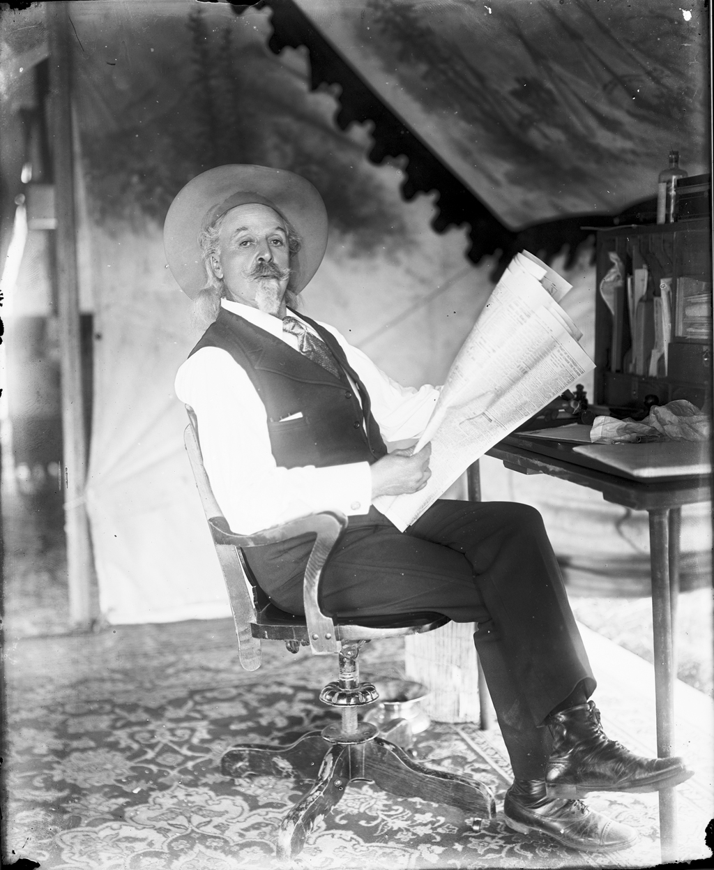 William “Buffalo Bill” Cody, 1907